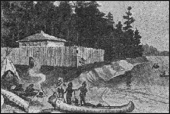 Artist's impression of Fort Rouillé, near the current site of the CNE, Toronto.